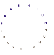 Logo of Stichting Praemium Erasmianum